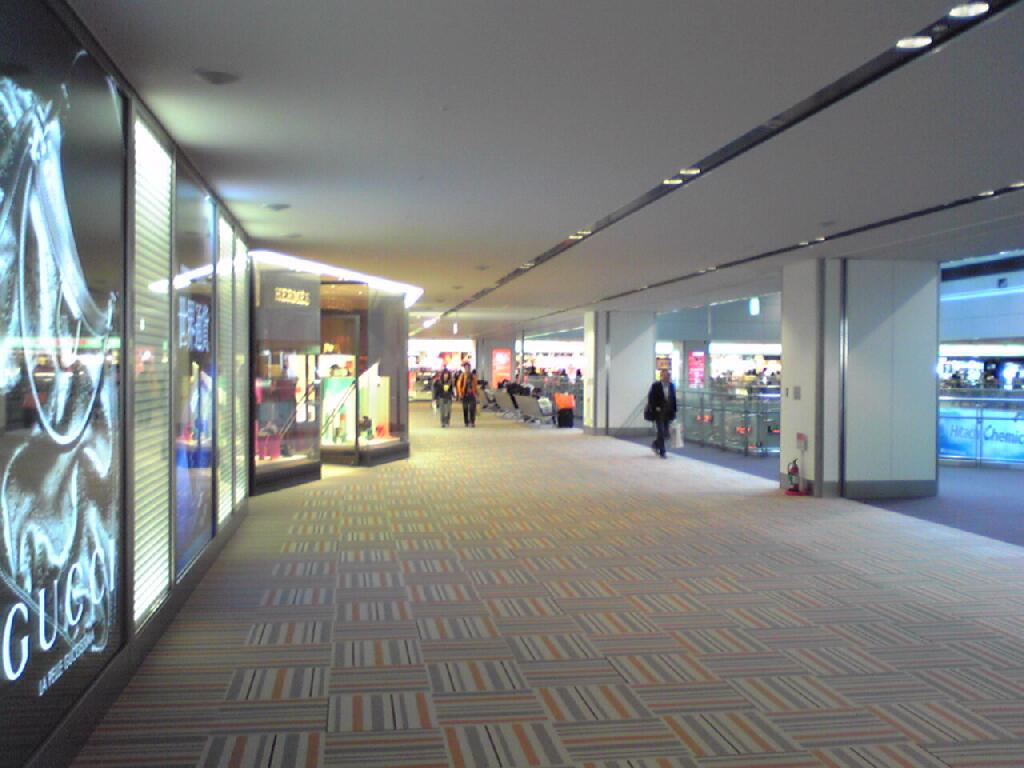 Narita International Airport Terminal 2 "Gobangai" arcade